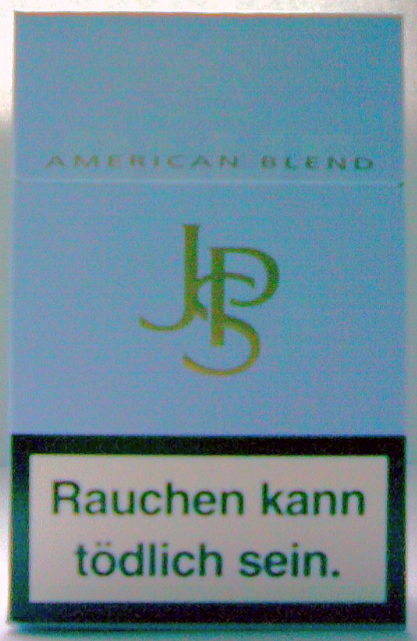 John Player Special Blue Cigarettes